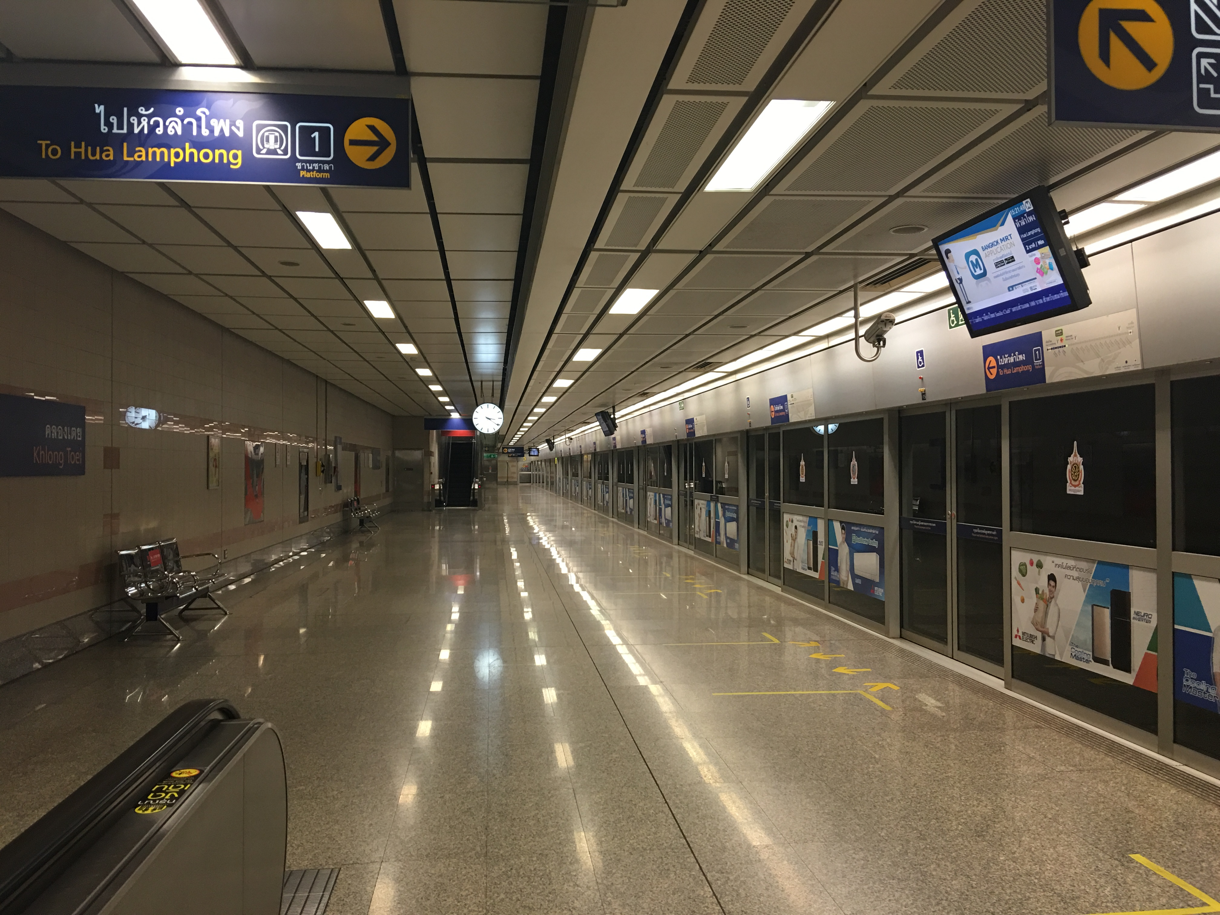 The platform 1 of Khlong Toei Station